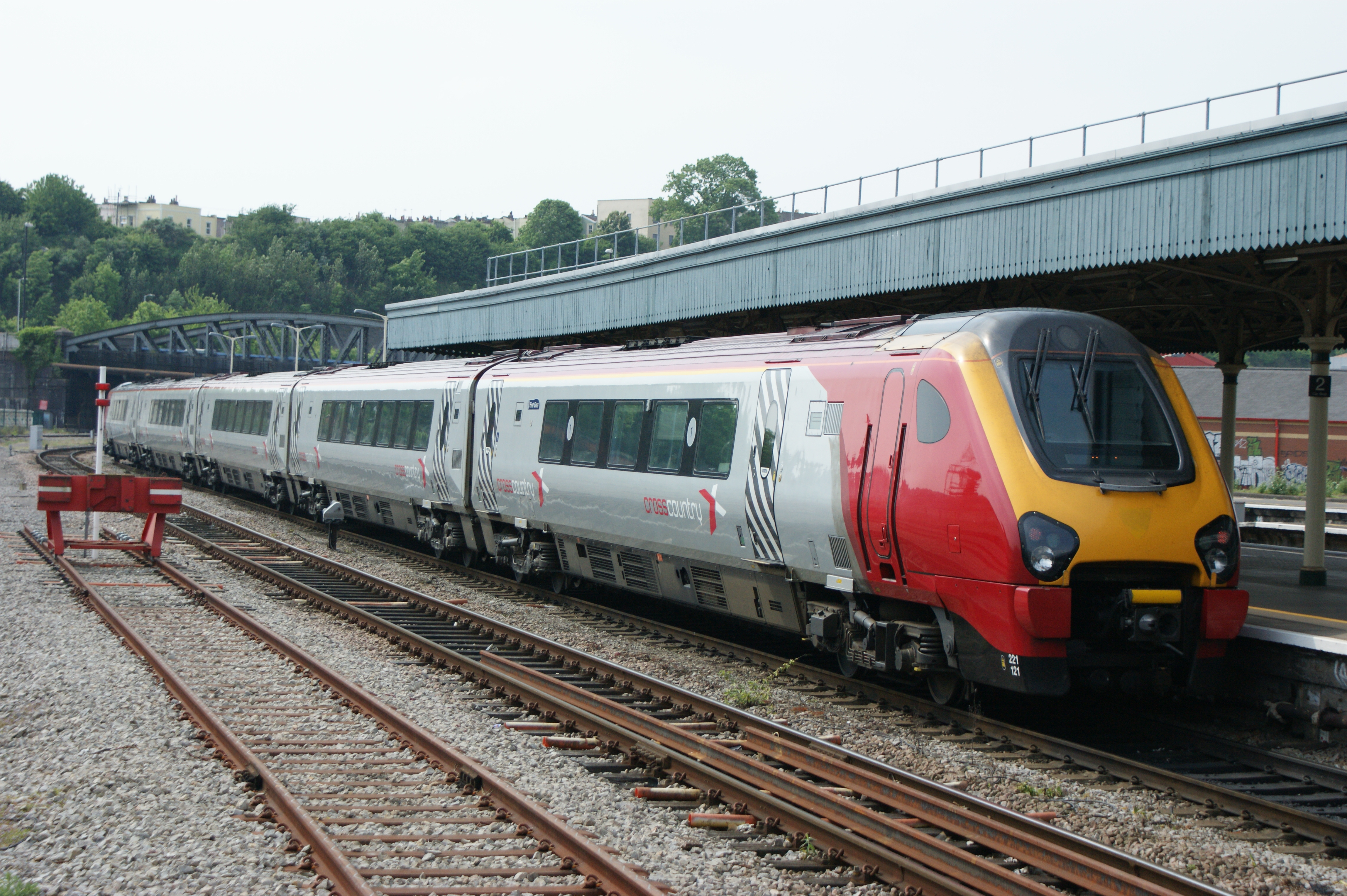 Bombardier (Wakefield & Brugge) Class 221 "Super Voyager" 4-car dmu No.221 121 (ex- "Charles Darwin") of Arriva Cross Country in AXC-branded Virgin Cross Country livery on a Newcastle - Paignton service at Bristol Temple Meads, 05/08.